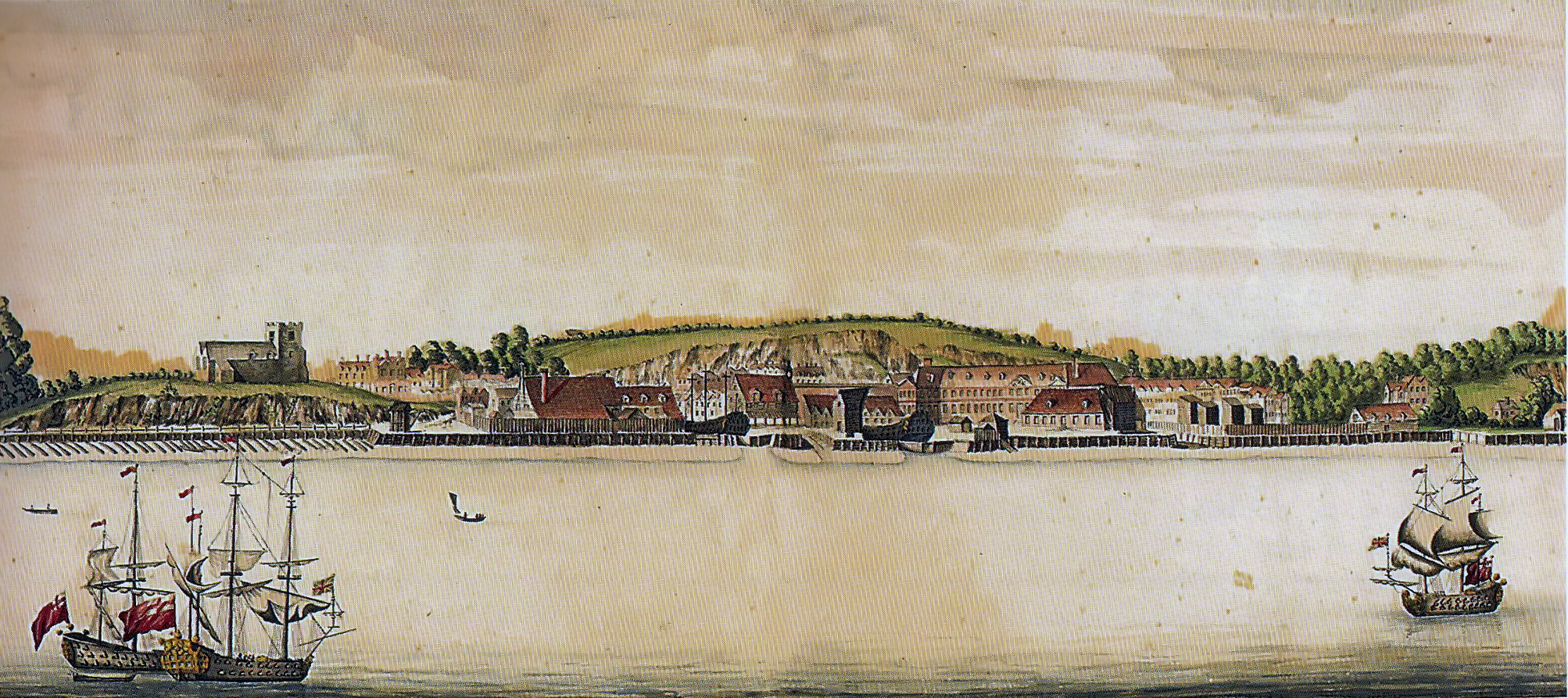 A view of the Thames and Woolwich Dockyard in Woolwich, then Kent, now South East London, UK. To the left the medieval parish church. Watercolour of 1698 prepared for King William III under Edmund Drummer in volume in BL. The British Library, King's MS 43, ff. 47-8.